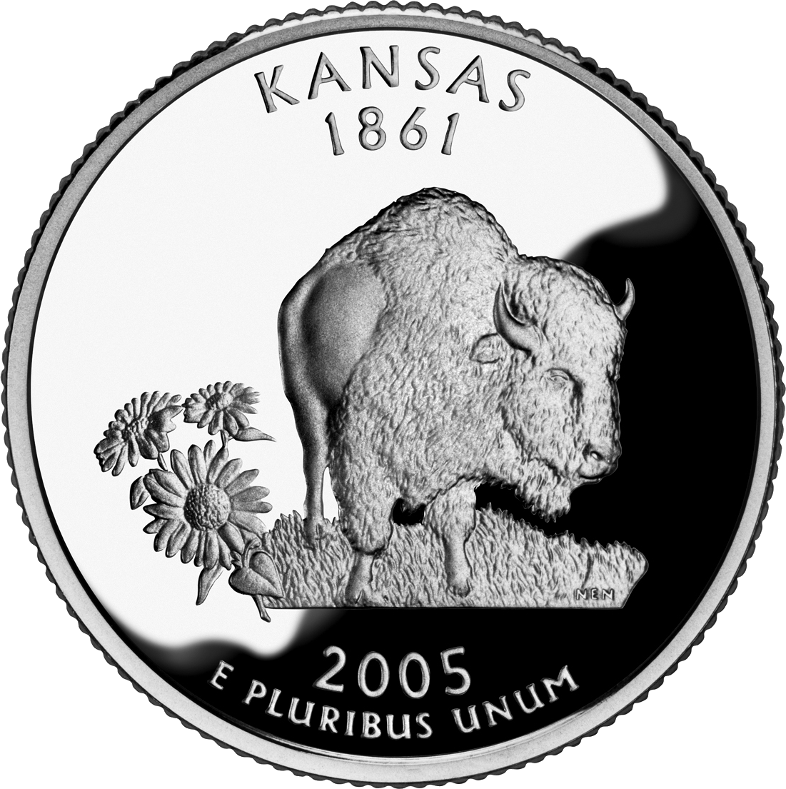 Removed background, cropped, and converted to PNG with Macromedia Fireworks. This image depicts a unit of currency issued by the United States of America. If Fraudulent use of this image is punishable under applicable counterfeiting laws. As listed by the United States Secret Service at money illustrations, the Counterfeit Detection Act of 1992, Public Law 102-550, in Section 411 of Title 31 of the Code of Federal Regulations (31 CFR 411), permits color illustrations of U.S. currency provided:1. The illustration is of a size less than three-fourths or more than one and one-half, in linear dimension, of each part of the item illustrated;2. The illustration is one-sided; and3. All negatives, plates, positives, digitized storage medium, graphic files, magnetic medium, optical storage devices, and any other thing used in the making of the illustration that contain an image of the illustration or any part thereof are destroyed and/or deleted or erased after their final use. Certain coins contain copyrights licensed to the U.S. Mint and owned by third parties or assigned to and owned by the U.S. Mint [1]. For the United States Mint circulating coin design use policy, see [2]; for the policy on the 50 State Quarters, see [3]. Also: COM:ART #Photograph of an old coin found on the Internet